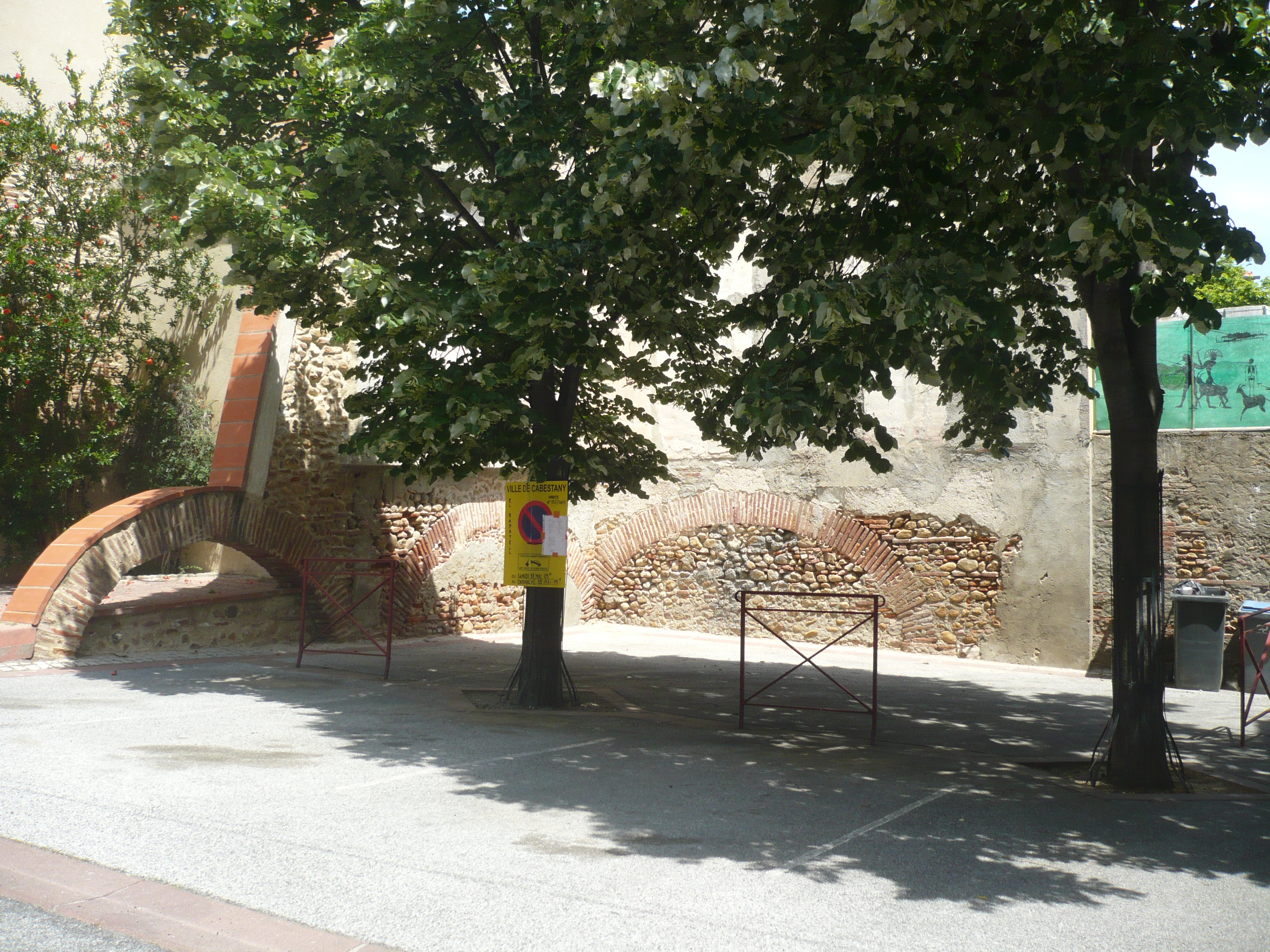 Place abbé Michel Matton à Cabestany